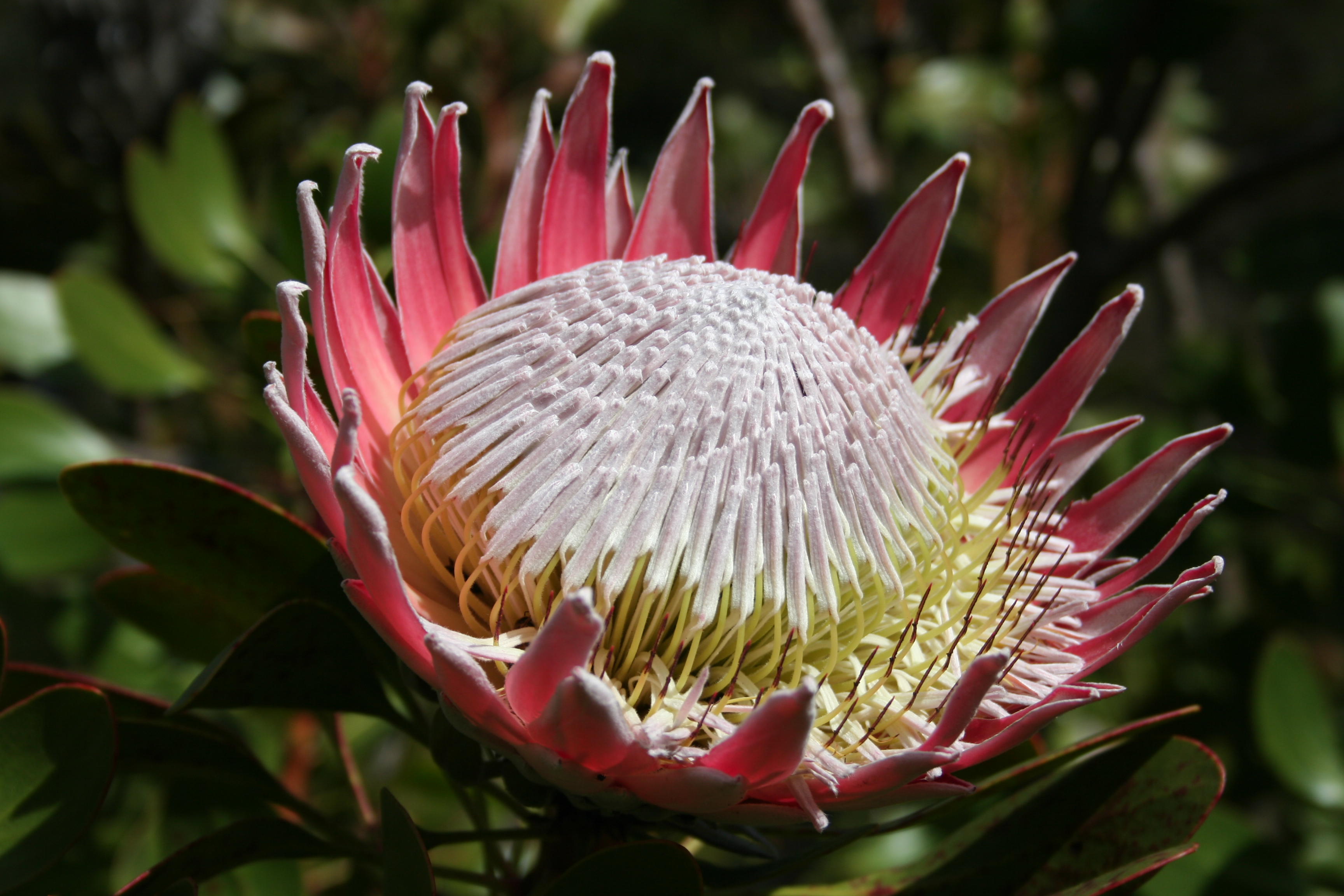 Protea cynaroides, Stellenbosch Botanical Garden, South Africa